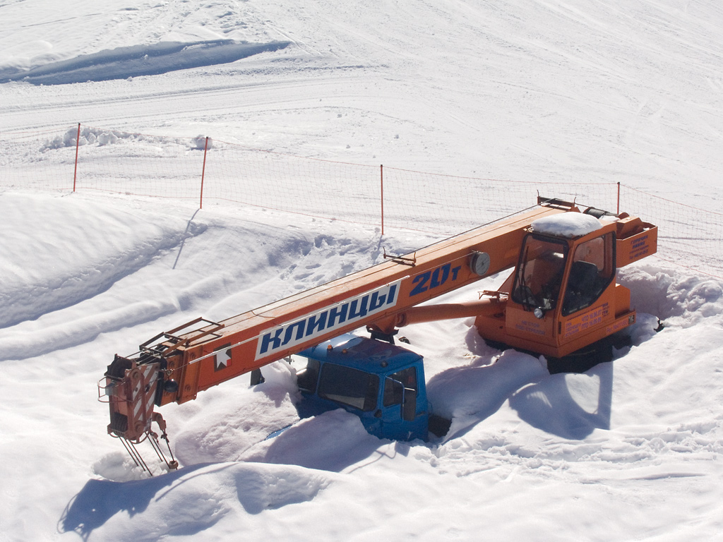 A crane truck covered in heavy snow in Krasnaya Polyana, Krasnodar Krai, Russia.